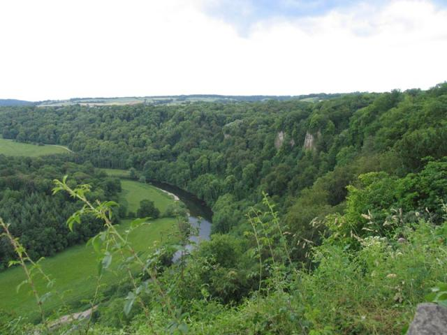 The Wye from Symonds Yat Rock. The Wye meanders through the eastern part of the upper section of the square.